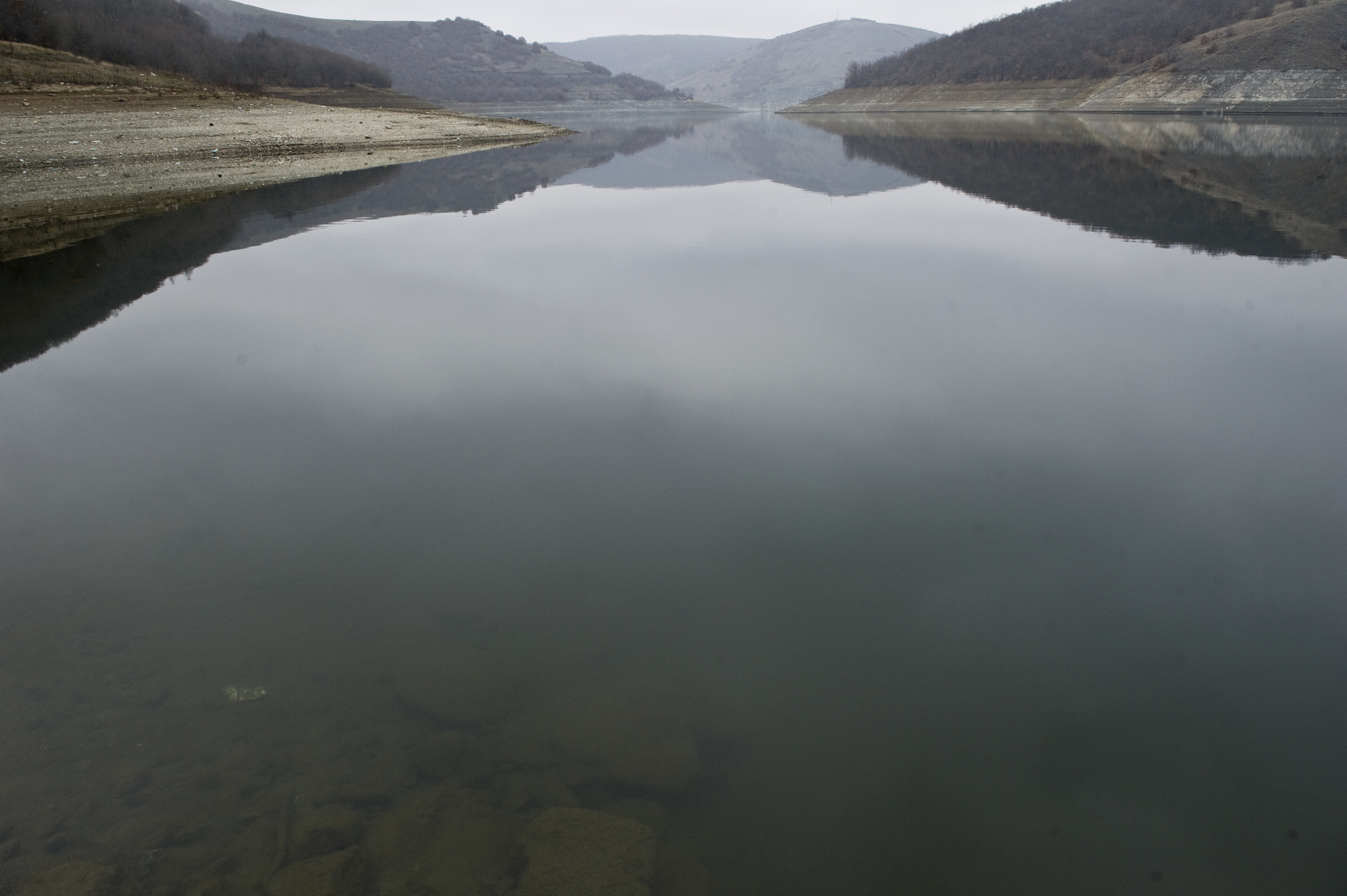 badovci